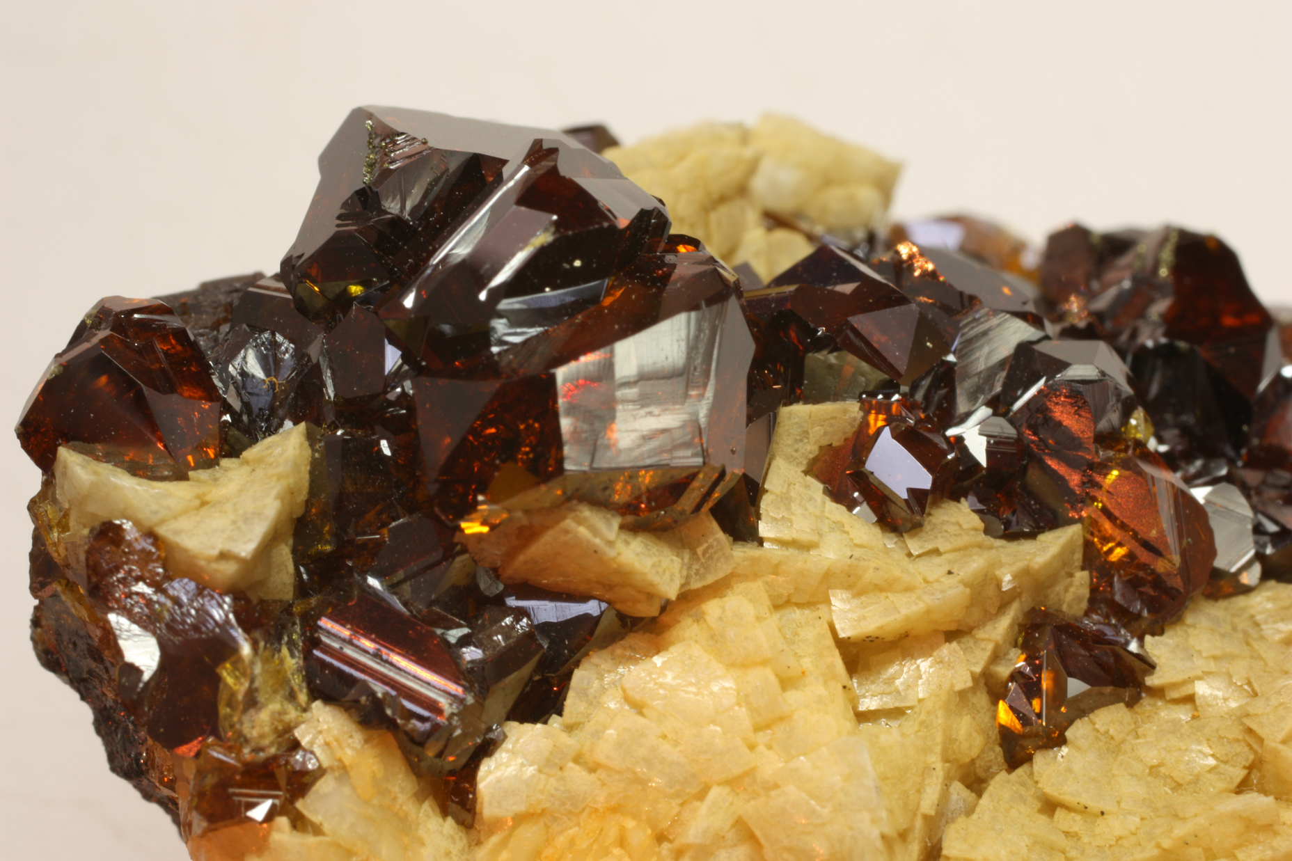 Spalerite with dolomite. Troya mine, Mutiloa, Guipuzcoa, Spain Photo J. Callén